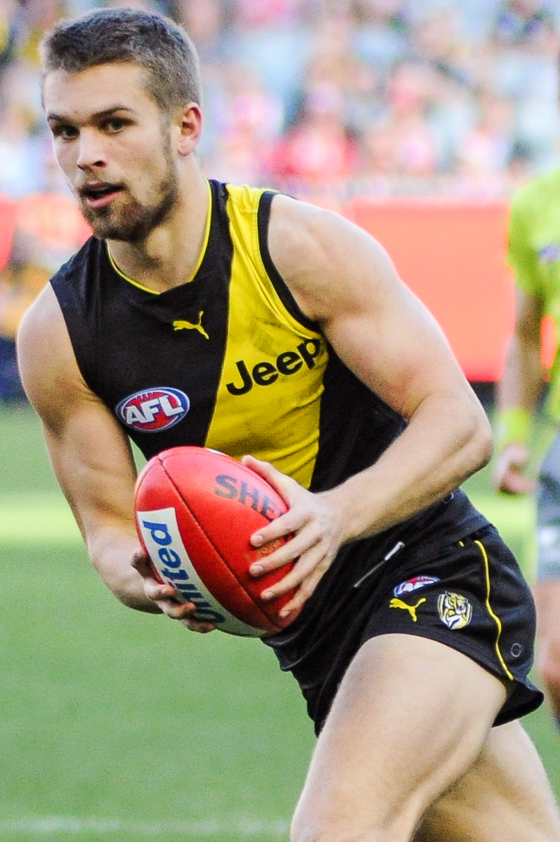 Dan Butler during the AFL round thirteen match between Richmond and Sydney on 17 June 2017 at the Melbourne Cricket Ground in Melbourne, Victoria.